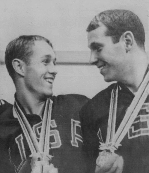 LG18 1964 Wire Photo CLARK SCHMIDT CRAIG MANN US Swimmers OLYMPIC GOLD Medal